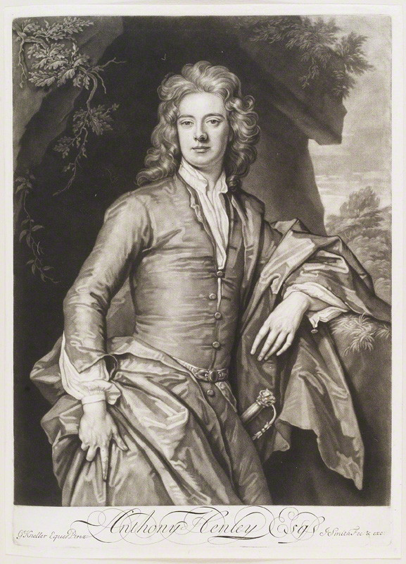 Portrait of Anthony Henley (c. 1667–1711), English politician.